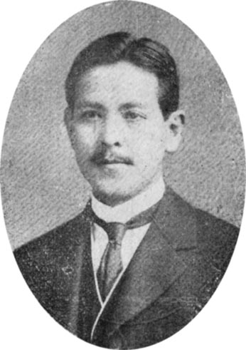 Mr. Un'ichi Nonomura.